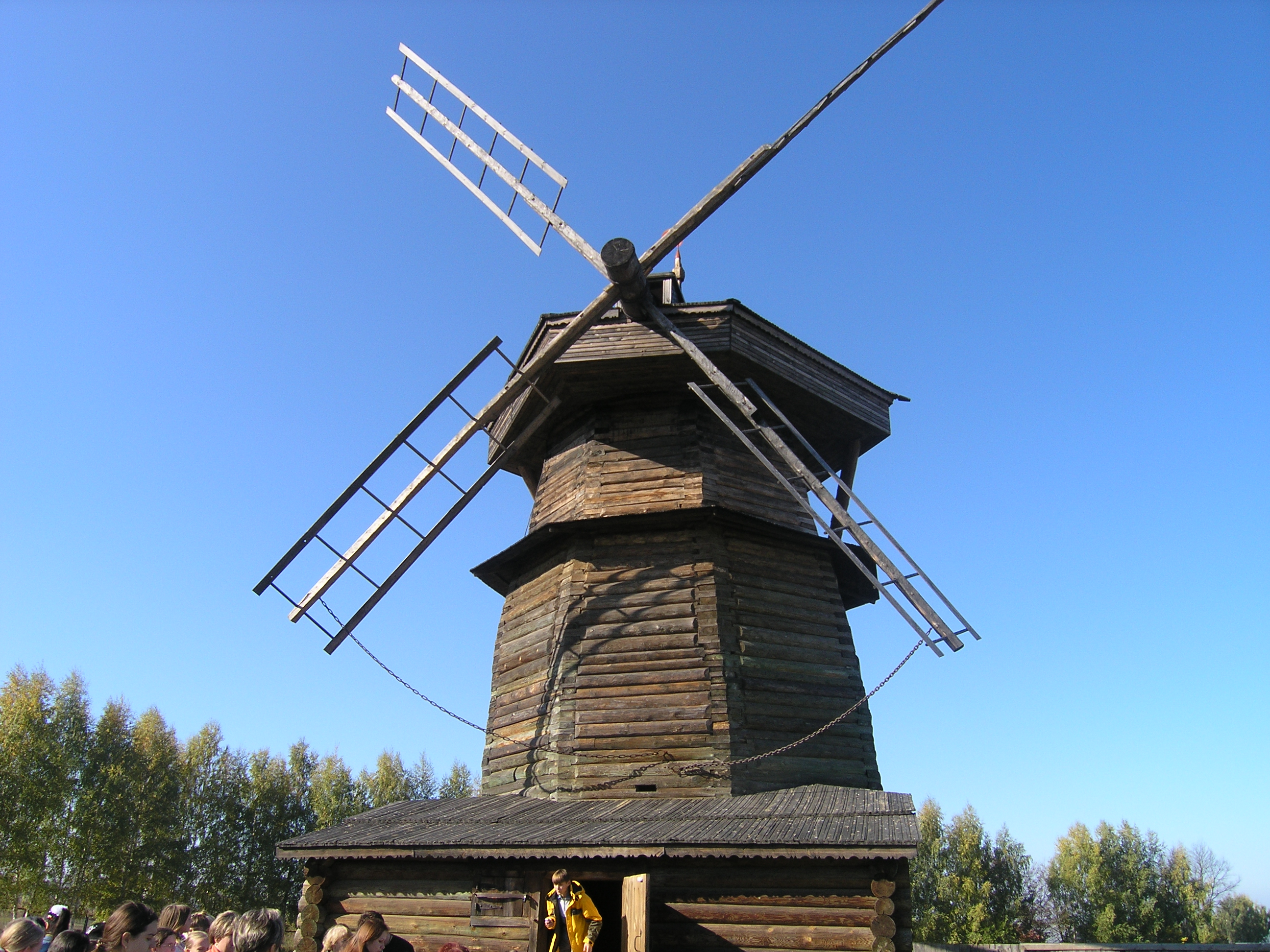 Windmill. Museum of Wooden Architecture and Peasant Life in Suzdal, Russia.